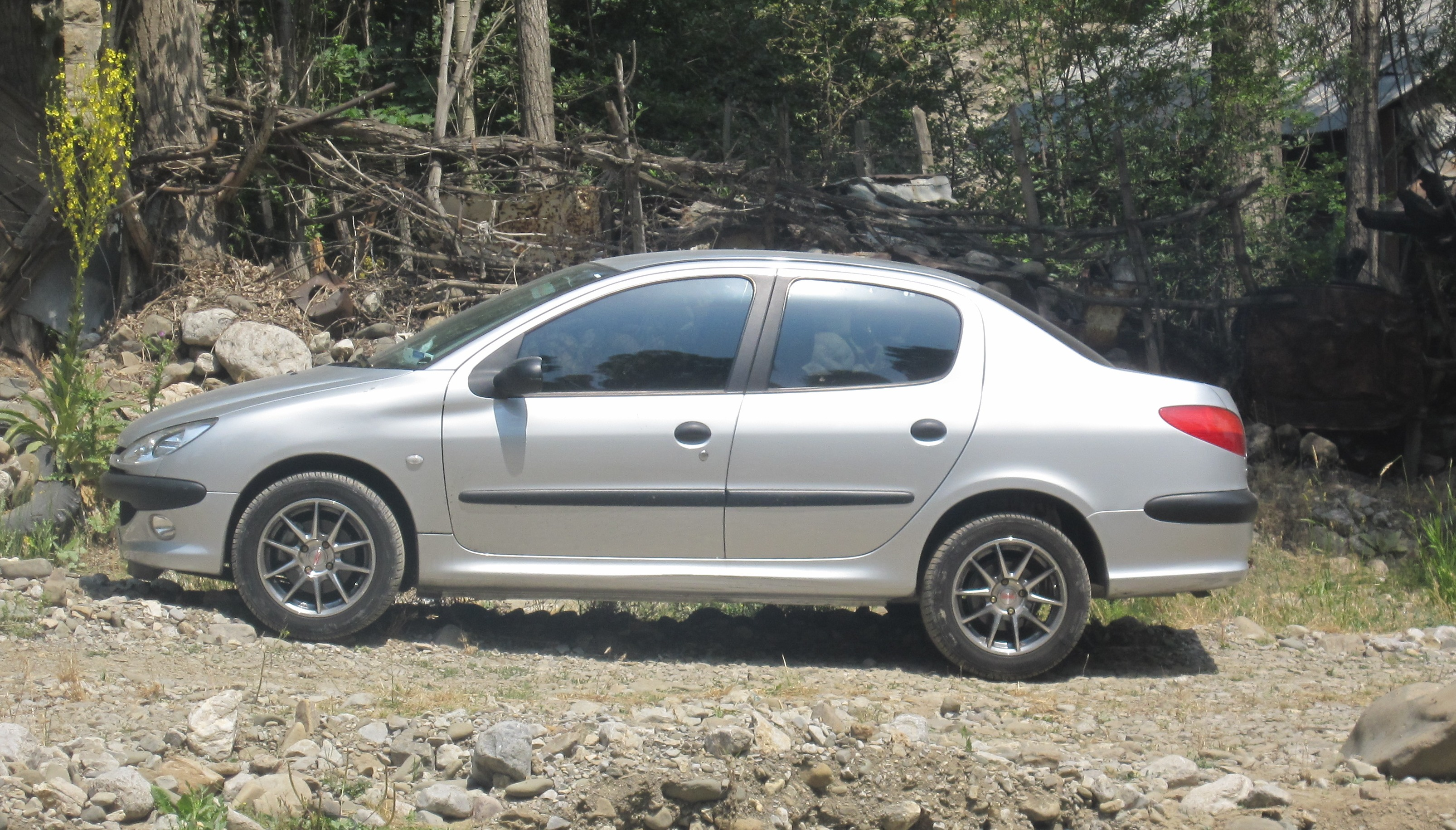 A notchback sedan model was developed in Iran under the name Peugeot 206 SD, as of 2006. It was jointly designed by Peugeot and Iran Khodro and is the fifth and last version of Peugeot 206 models. In 2006, Iran Khodro started exporting 206 SD to other countries including Russia, Turkey and Algeria. In Brazil, the 206 SD will be produced starting at October 2008 and sold as 207 Passion. It is not related, however, to the 207 sold in Europe. In Malaysia and China, it is also sold as the 207, which is sold only as sedan version there.